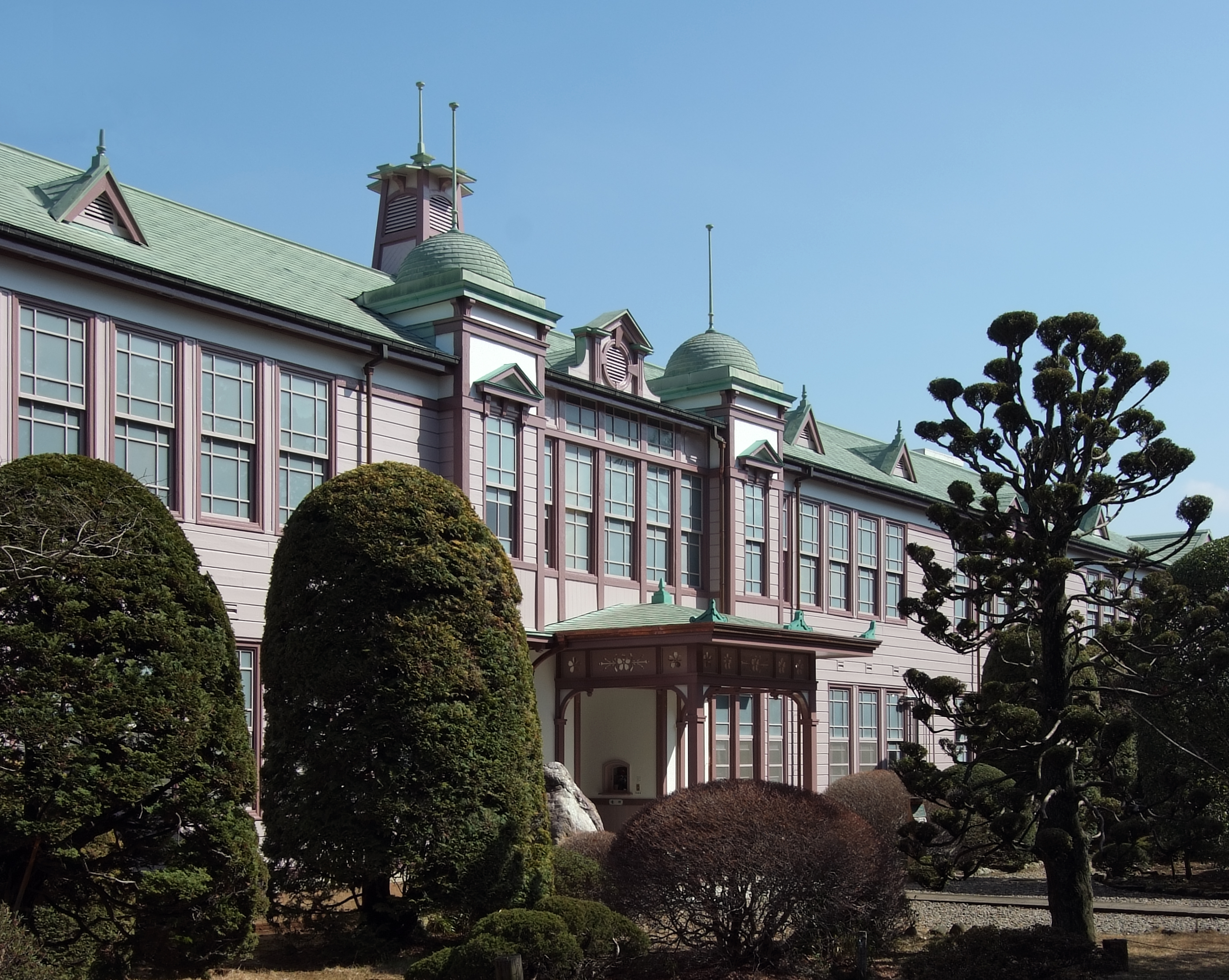 Memorial Hall of Chiba Prefectural Sakura Senior High School, at Sakura Chiba Japan, designed by Misao Kuno in 1910.